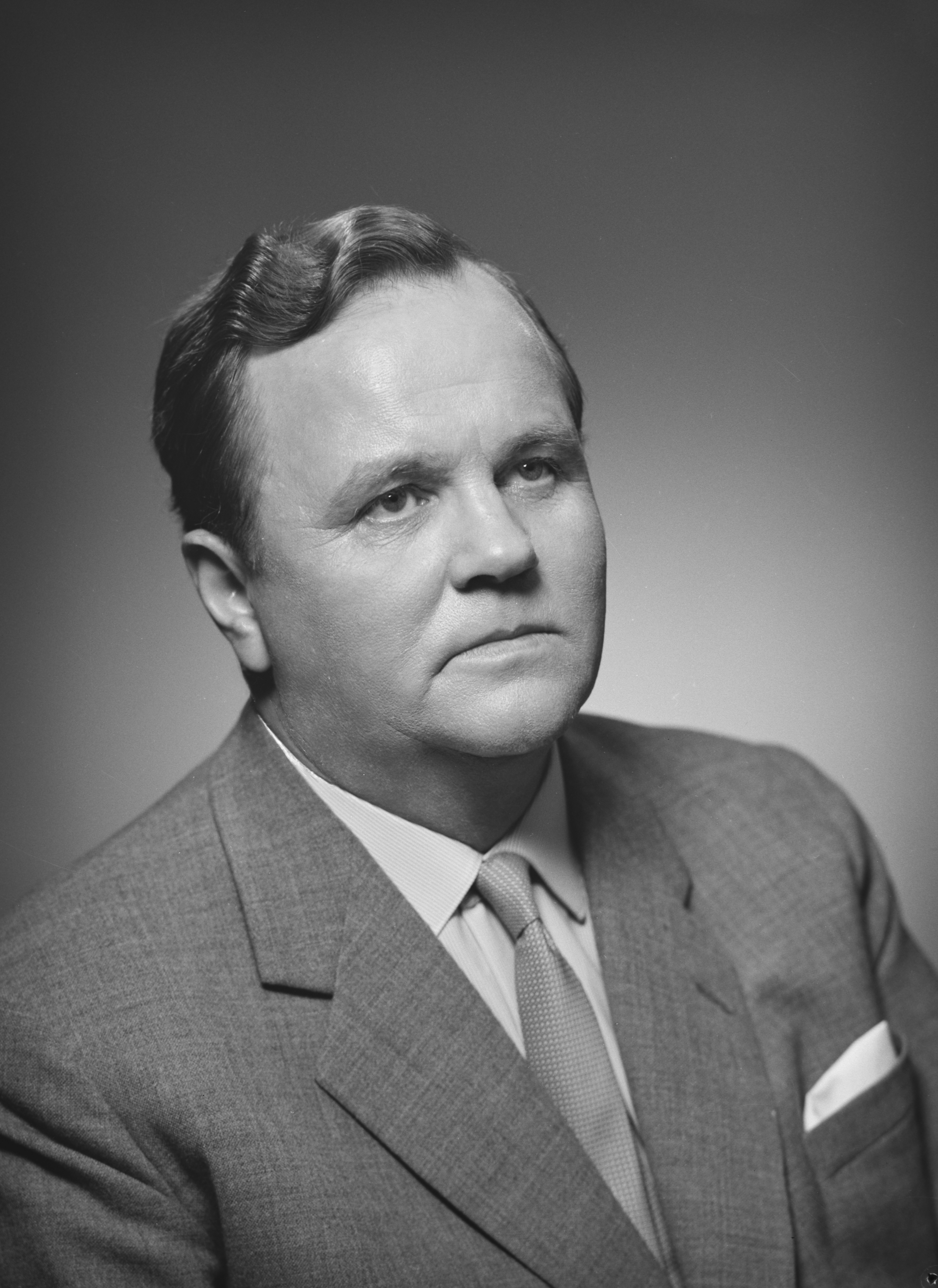 Singer Mauno Tamminen 1961